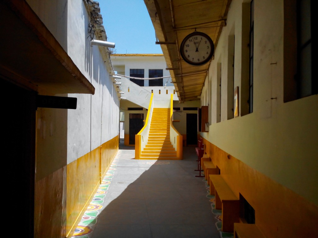 B.P.S. Public School